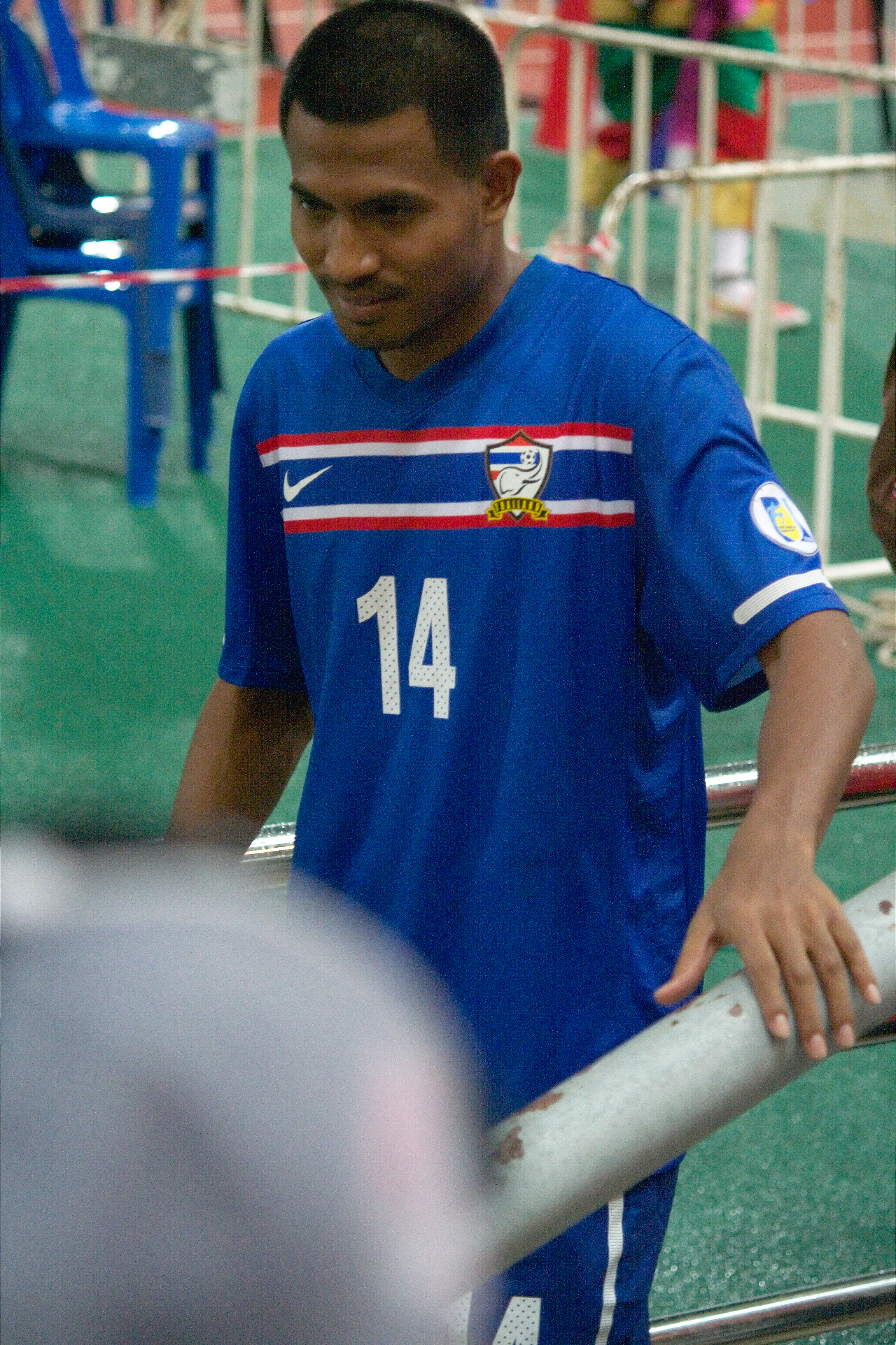 Thailand's Sompong Soleb after the World Cup 2014 third round qualifying match against Oman at Rajamangala Stadium